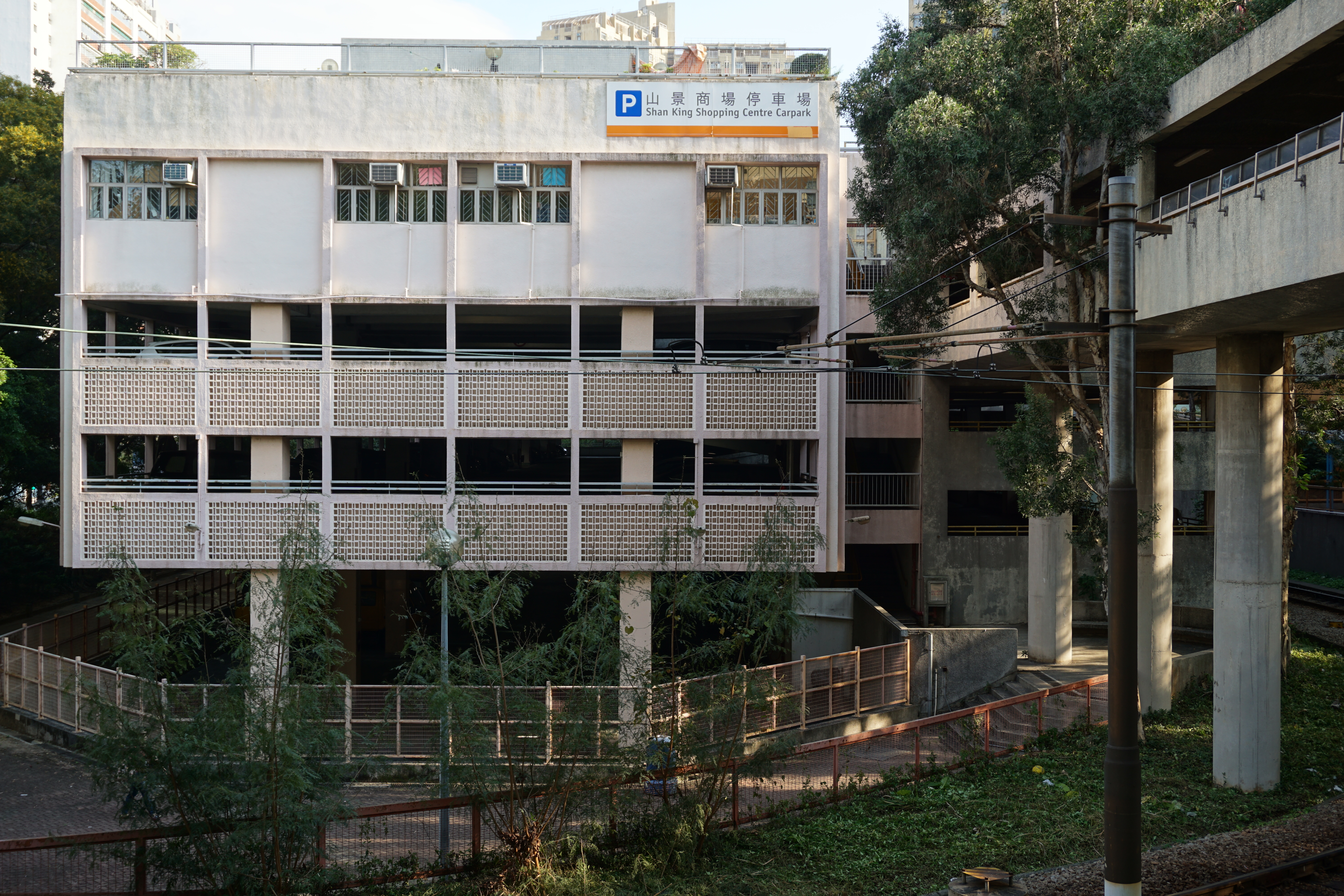 Shan King Shopping Centre Carpark in Tuen Mun, Hong Kong.